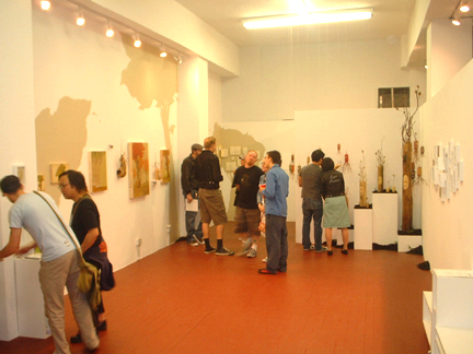 Junc Gallery 2005